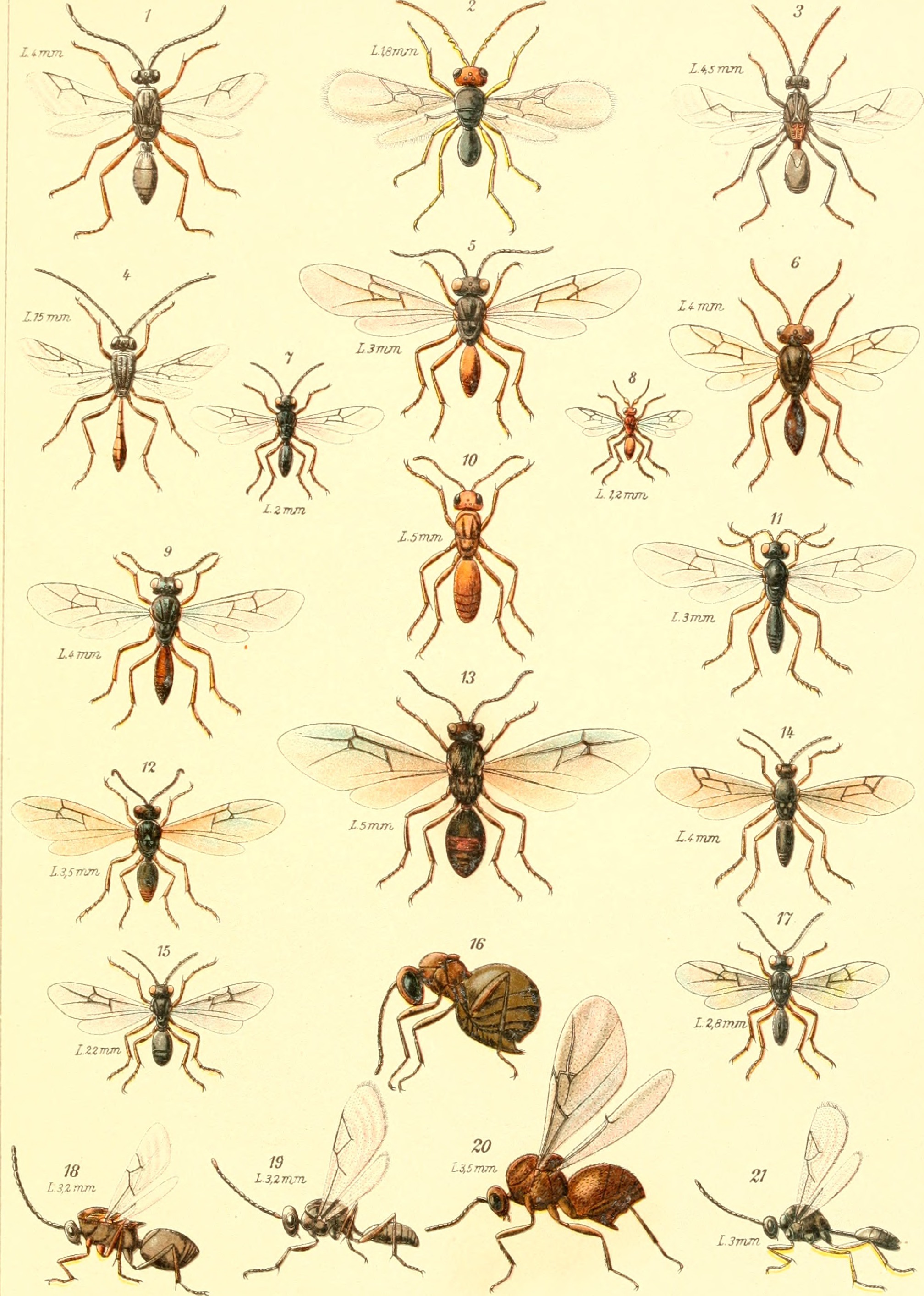 Title: Die insekten Mitteleuropas insbesondere Deutschlands Year: 1914-(26) (1910s) Authors: Schroder, Christoph Wilhelm Marcus, 1871-; Enslin, Eduard; Friese, Heinrich, 1860-1948; Kieffer, Jean Jacques, 1856-1925; Schmiedeknecht, Otto, 1847-1936; Stitz, H Subjects: Insects -- Germany; Hymenoptera Publisher: Stuttgart, Franckhsche verlagshandlung Text Appearing Before Image: Schröder, Insekten Mitteleuropas, Band III Cynipiden Tafel IV. Text Appearing After Image: 1. Arablynotus opacus. 2. Charips victrix luteiceps. 3. Callaspjdia Dufouri. 4. Ibalia Schirmeri. 5. Trigonaspis megaptera. 6. Synergus umbraculus. 7. Cecconia valerianellae. 8. Synergus thaumacera. 9. Rhodites Mayri. 10. Biorrhiza aptera. 11. Neuroterus baccarum. 12. Andricus autumnalis. 13. Andricus radicis. 14. Psilodora maculata. 15. Diastrophus rubi. 16. Trigonaspis synaspis. 17. Periciistus Brandt. 18. Aspicera scutellata. 19. Aegiiips rugicollis. 20. Cynips quercus-calicis. 21. Anacharis typica.